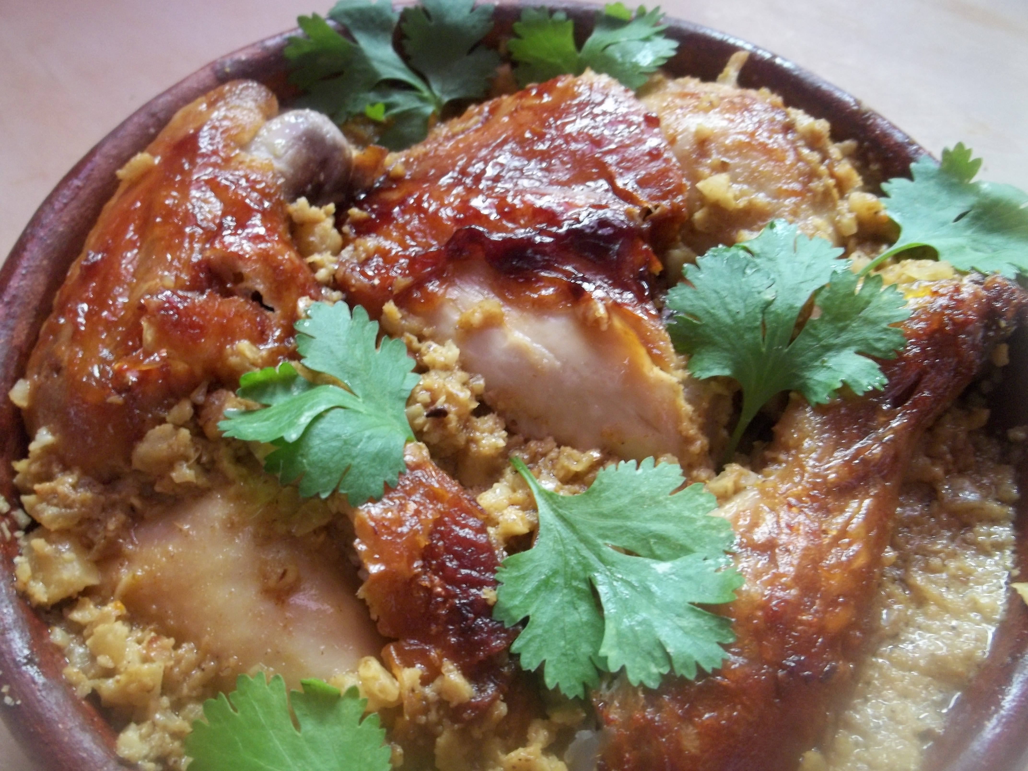 Chicken tabaka in hazelnut sauce (Georgian recipe)